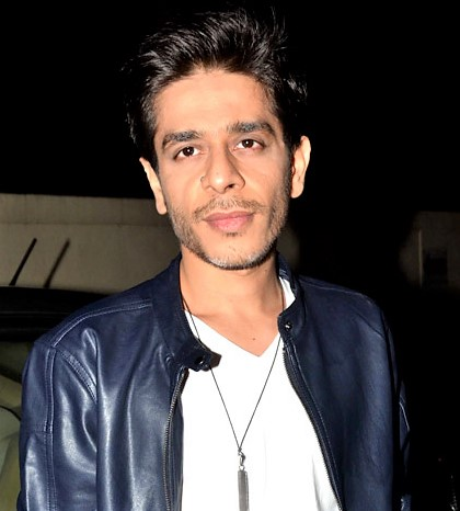 Indian actor Shashank Arora at a special screening of his film "Rock On 2" in 2016.